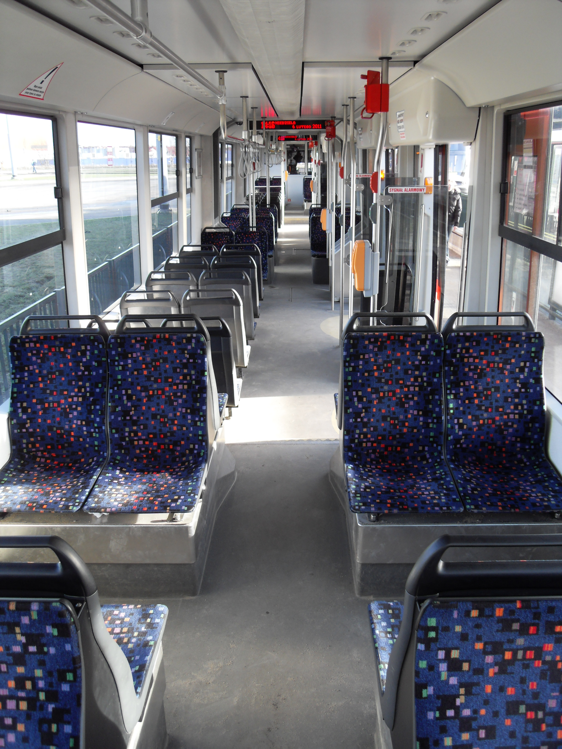 A Bombardier NGT6/2 tram in Gdańsk - the interior.